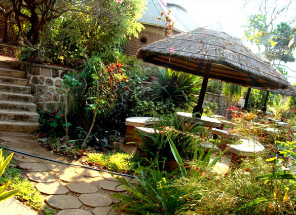 The open dining room